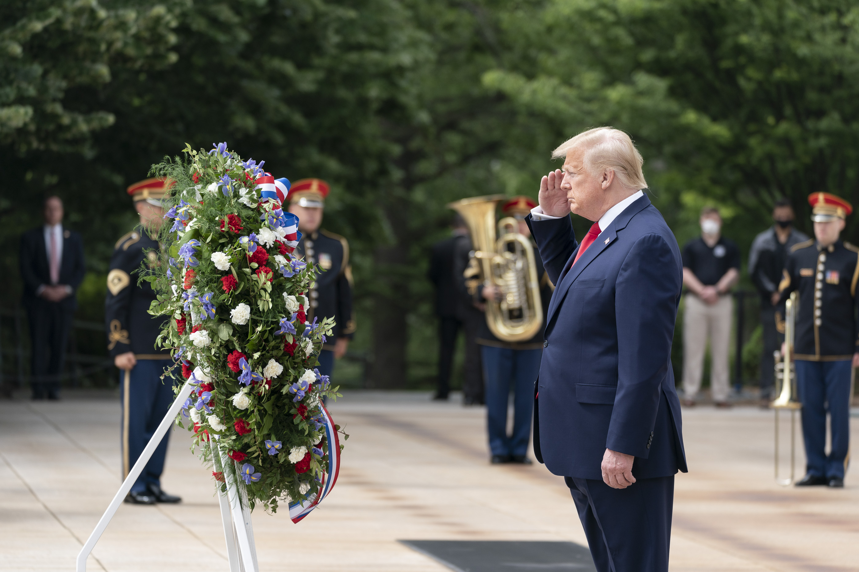 President Donald J. Trump salutes as he participates in the Memorial Day wreath-laying ceremony at the Tomb of the Unknown Soldier at Arlington National Cemetery Monday, May 25, 2020, in Arlington, Va. (Official White House Photo by Shealah Craighead)